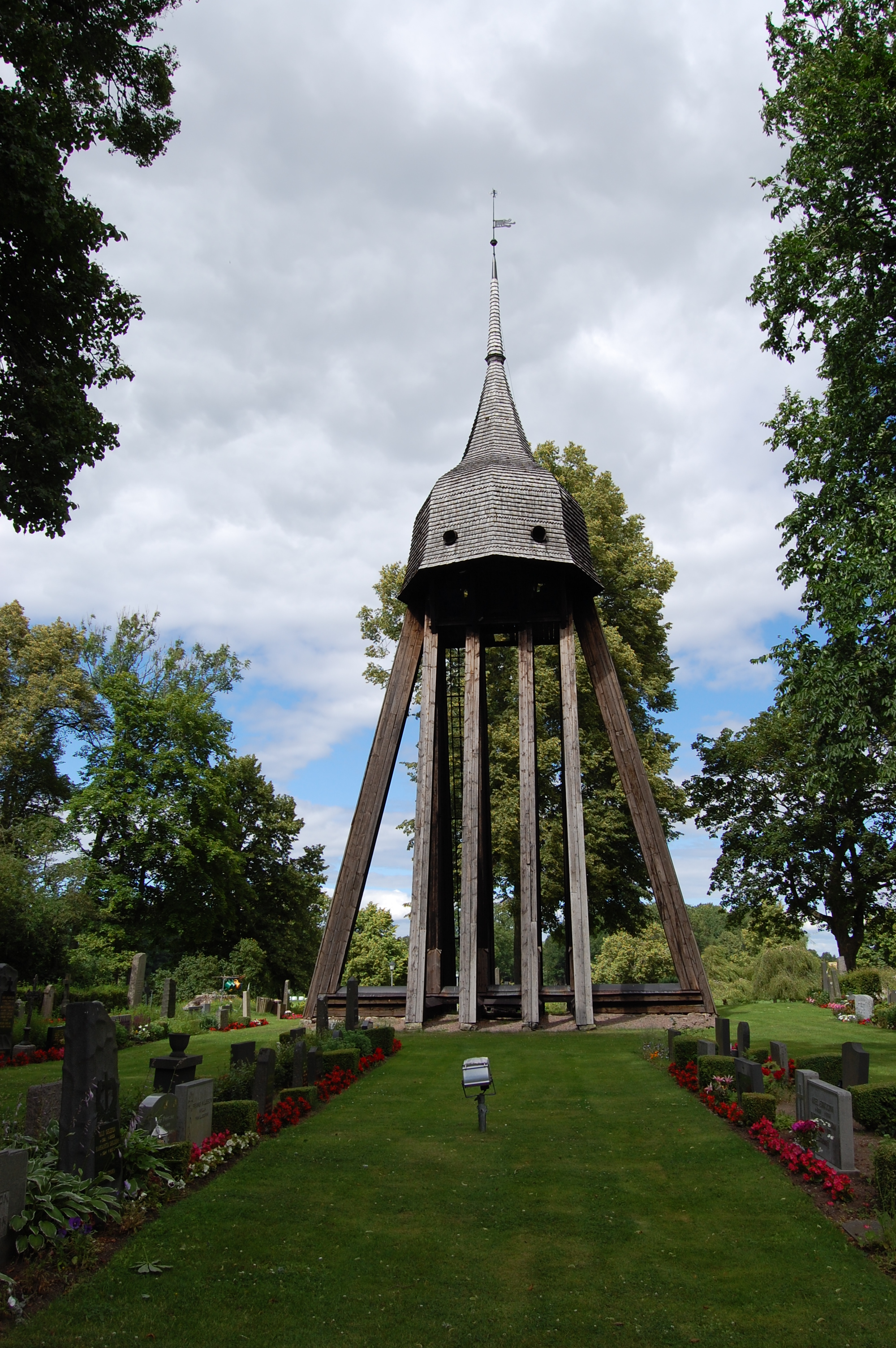 Torsås church.Bell Tower